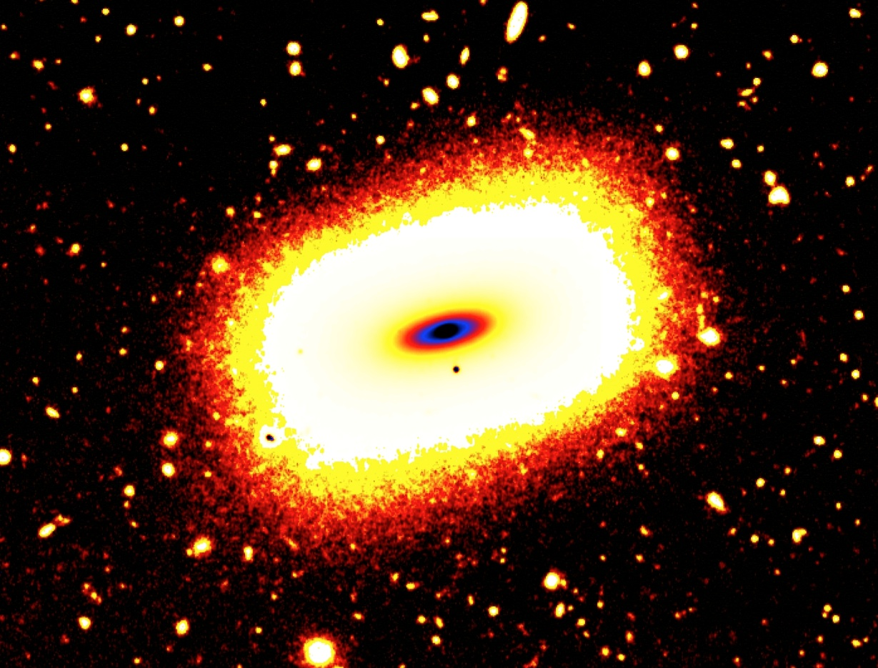 False colour image of the galaxy LEDA 074886. Credit: Alister Graham. Image taken with the Japanese Subaru Telescope.